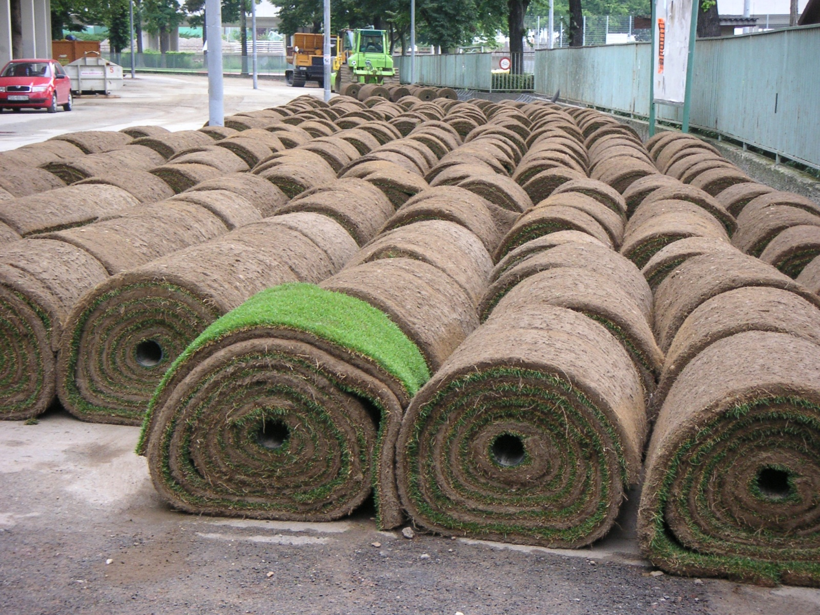 Rolled sod (or turf)